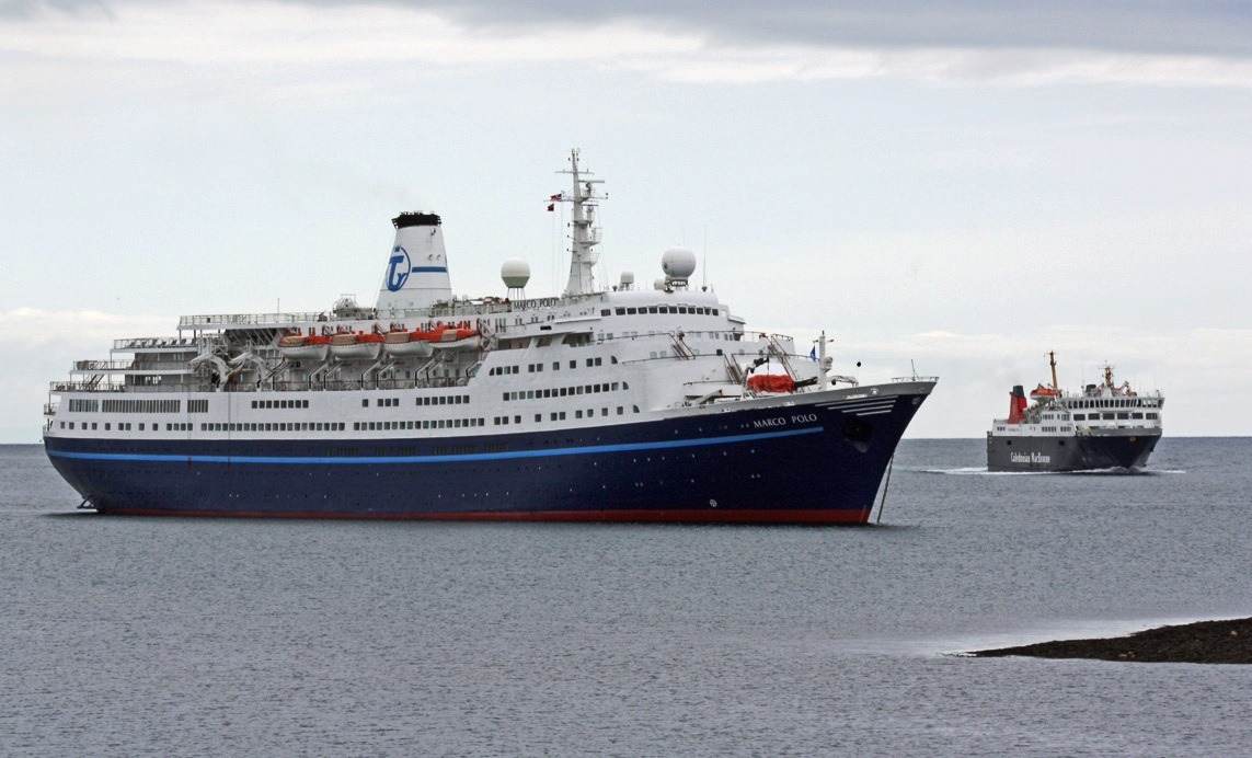 The Stornoway - Ullapool ferry 'Isle of Lewis' dwarfed by the cruise ship 'Marco Polo'. The 'Marco Polo' is the flagship of Transocean Tours and is capable of hosting up to 850 passengers across eight decks. Passegers are landed in Stornoway by tender.